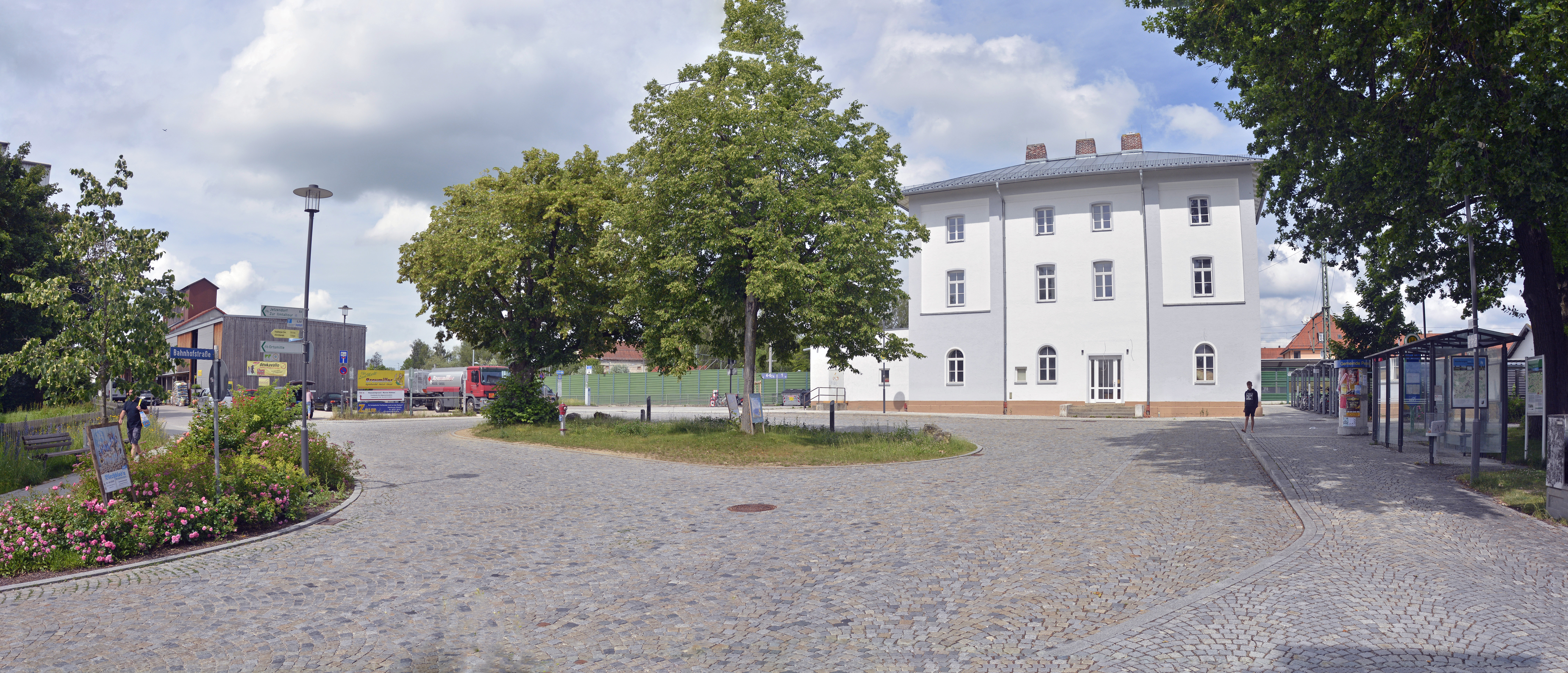 Petershausen - Station Square